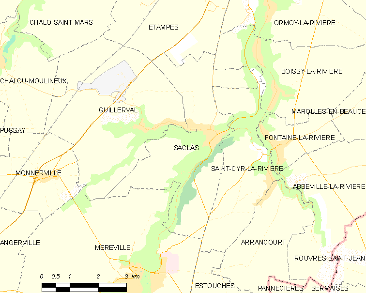 Map of French municipality Saclas